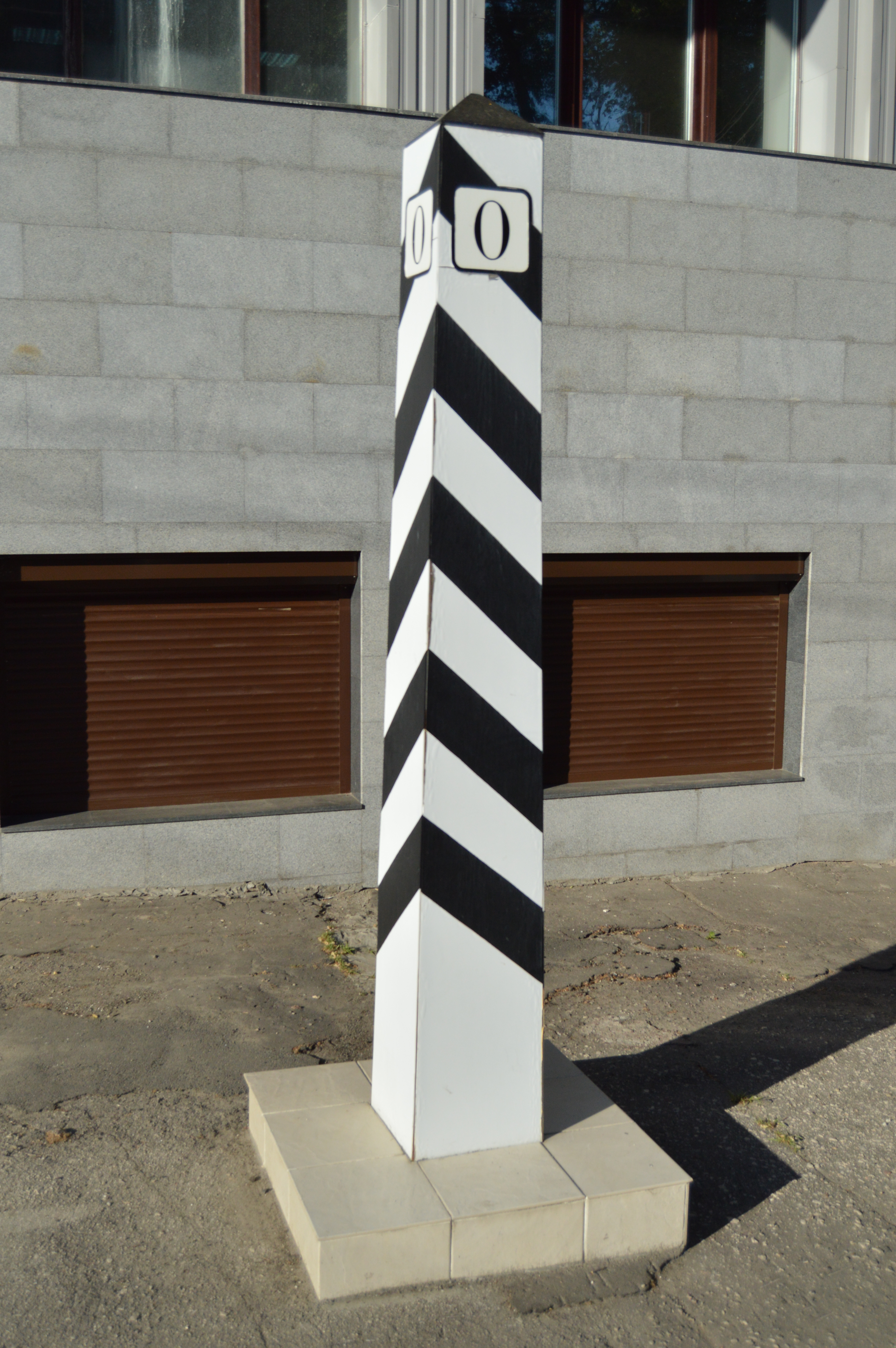 Kilometre Zero mark near Main Post Office 241050 in Bryansk, Russia.